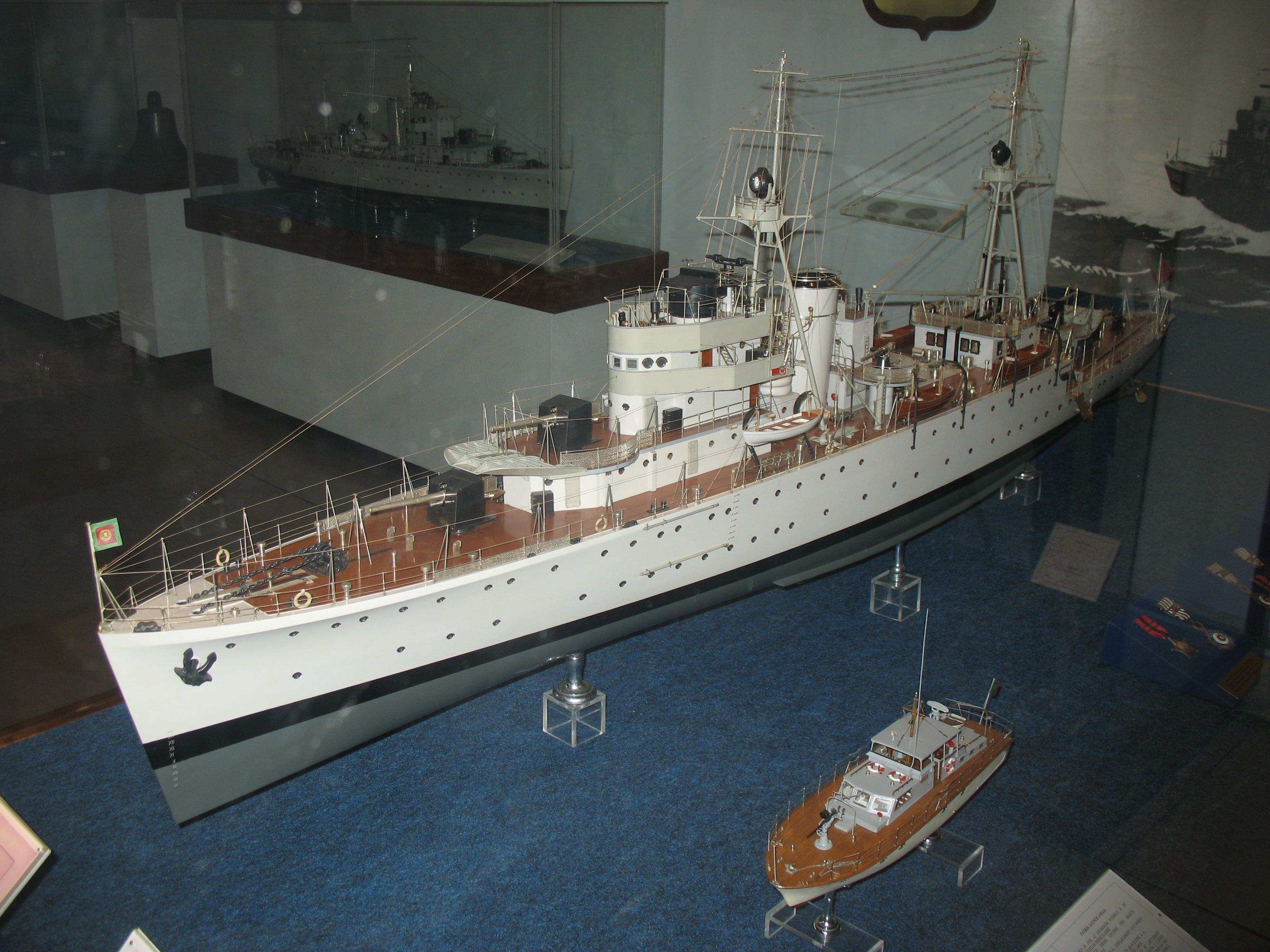 Photograph by Nct